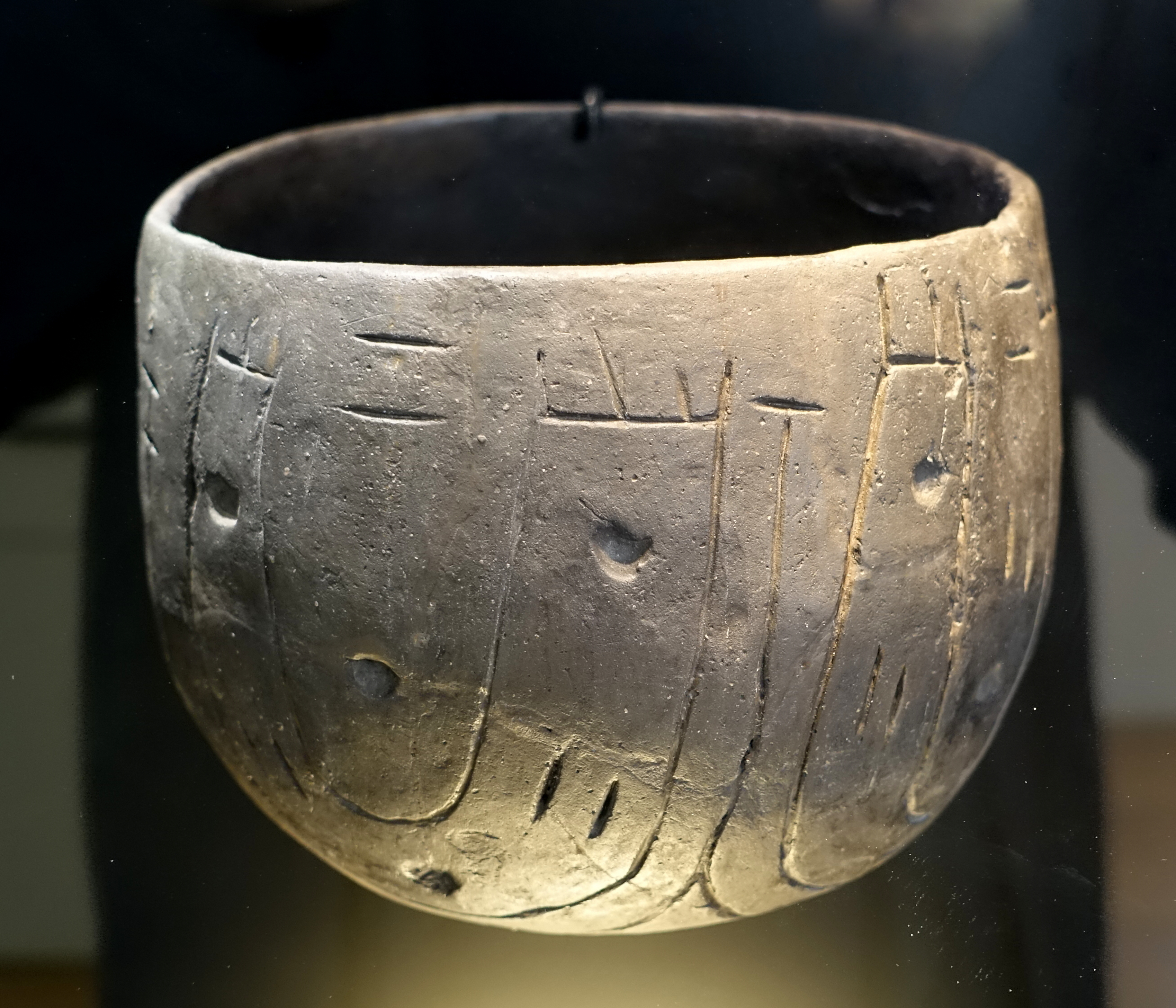 Exhibit in the Landesmuseum Württemberg - Stuttgart, Germany.